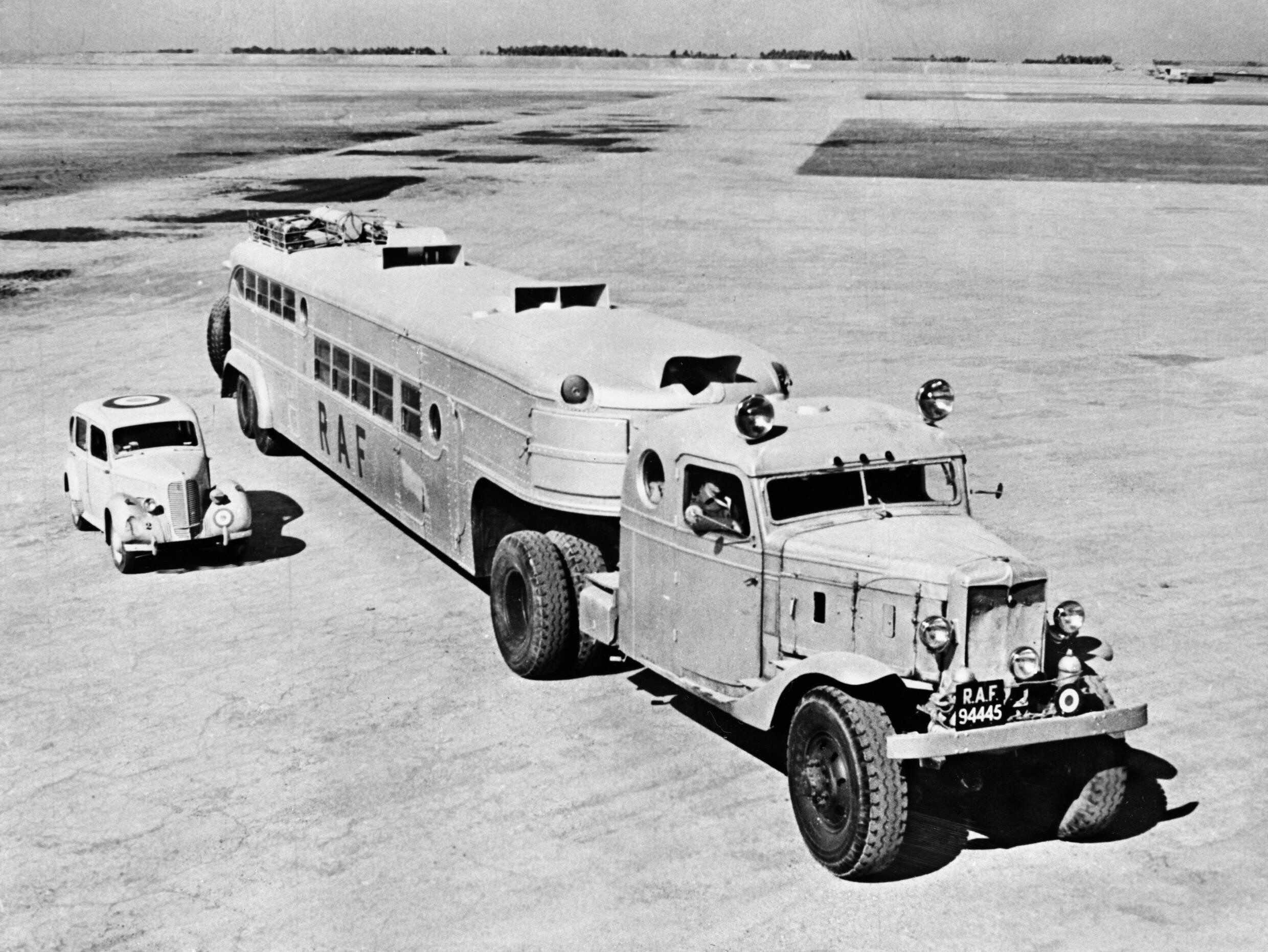 Royal Air Force in the Middle East, 1944-1945. The Marmon-Herrington THD-315-6 with articulated omnibus trailer, used by the RAF for the 1,300-mile duty transport run between Habbaniyah, Iraq, and Damascus, Syria. In 1932, two "Desert Pullman" bus conversions of the THD-315-6, originally an oilfield pipe carrier, were bought by the Nairn Transport Co. to run between Baghdad and Damascus. One of the vehicles was taken over by the RAF in 1943 and is seen here at Habbaniyah, compared in size with a Hillman Minx staff saloon car. Known as the "Monster Bus" in RAF service it carried 44 passengers and their luggage, was fully air-conditioned and was equipped with a kitchen, lavatory and iced-water on tap.